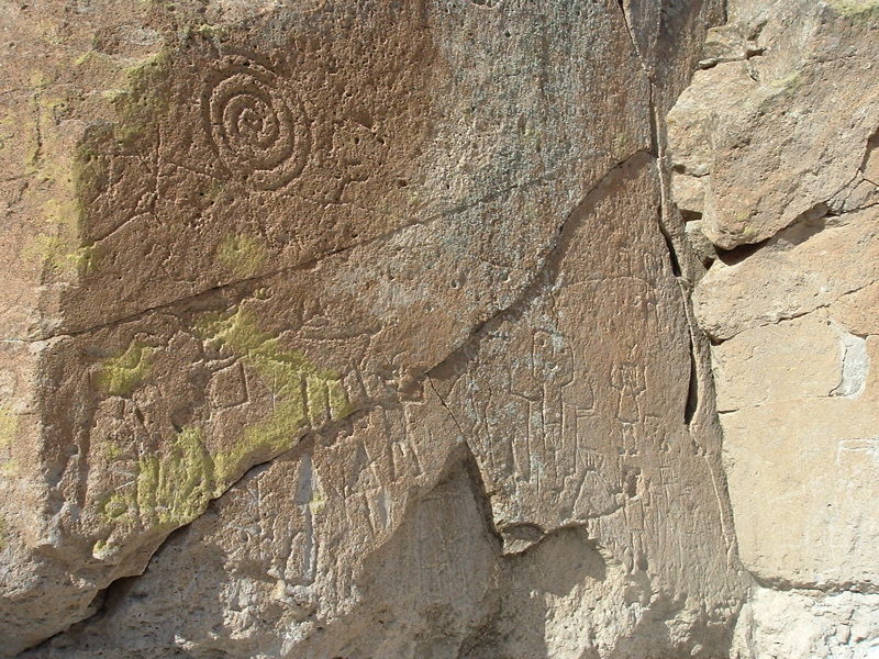 Petroglyphs at the Tsankawi Cliff Dwellings in Bandolier National Monument, New Mexico.